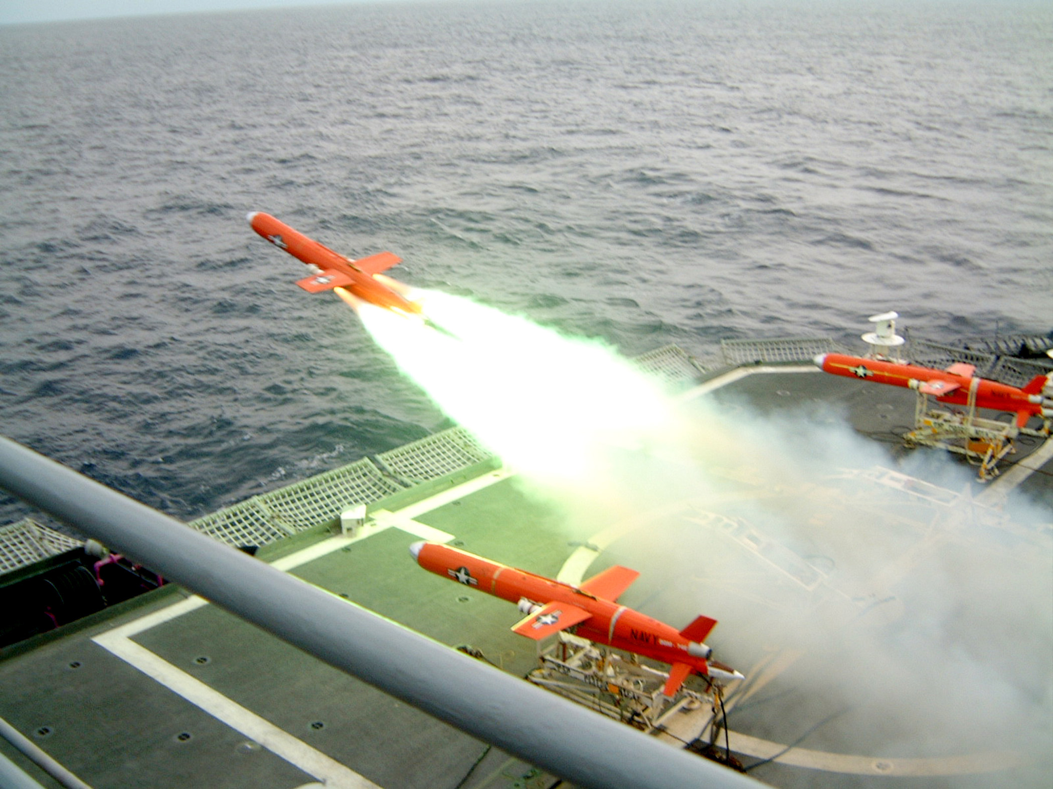 At sea aboard USS O'Brien (DD-975), — A BQM-74E Chukar target drone launches from the fantail of USS O'Brien (DD 975) and will act as a "hostile" anti-ship missile during a missile training exercise. The drones are painted orange so that they will be easier to see in the water and can be recovered. Nine U.S. Navy ships took part in this training, an anti-ship missile defense training exercise (MISSILEX 02-1) as part of a Commander Task Force Seven Five (CTF 75) Multi-Sail battle group interoperability exercise. All participating ships are forward deployed in Yokosuka and Sasebo, Japan.